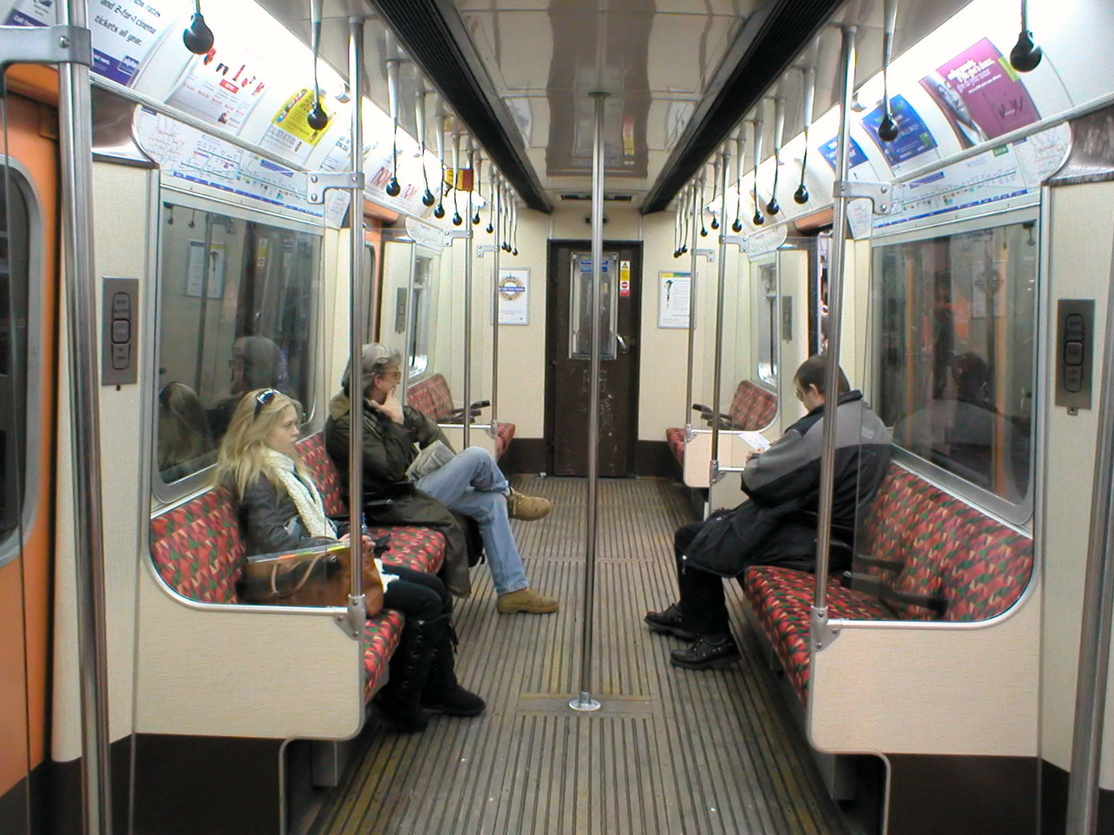 Interior of an unrefurbished London Underground D78 Stock train, travelling eastbound to Tower Hill.